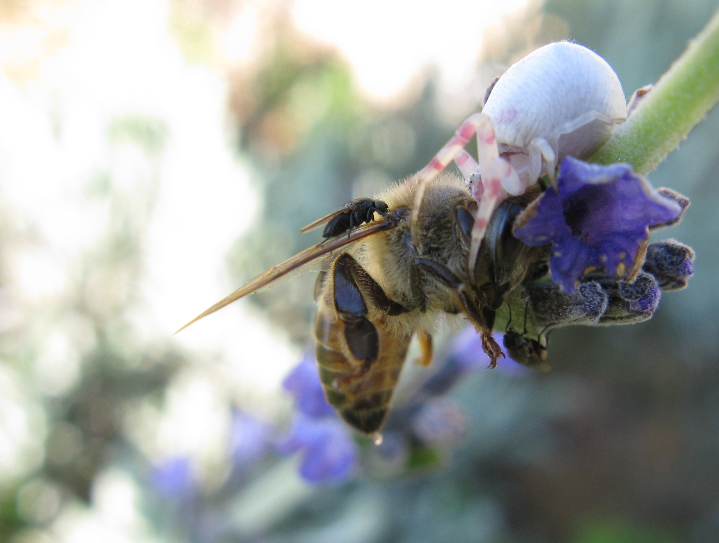 They are fairly common, but seldom noticed, being small and inconspicuous. Predators seldom pay them any attention.